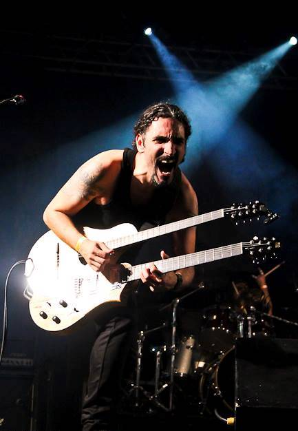 Yossi Sassi's tour in Brazil with the Bouzoukitara